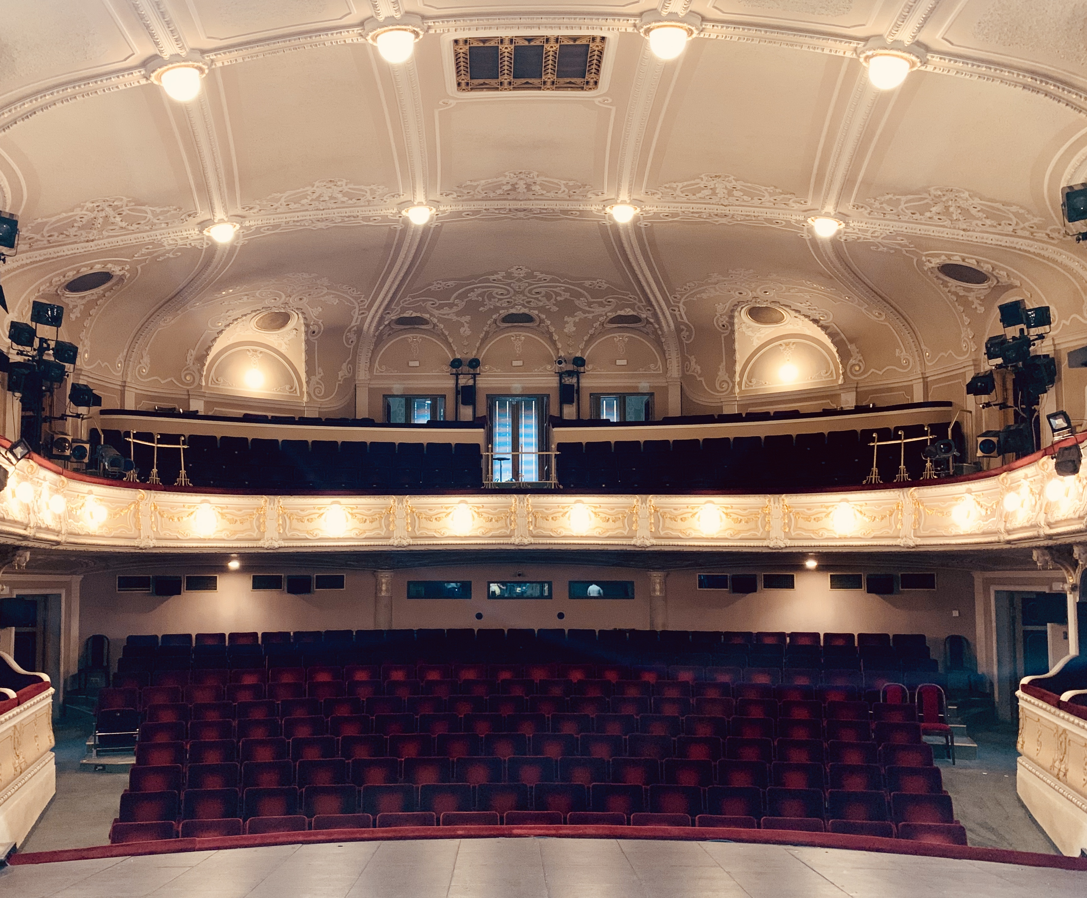 City Theatre, Mladá Boleslav. Main hall. Interior by Fellner & Helmer, 1906–1909